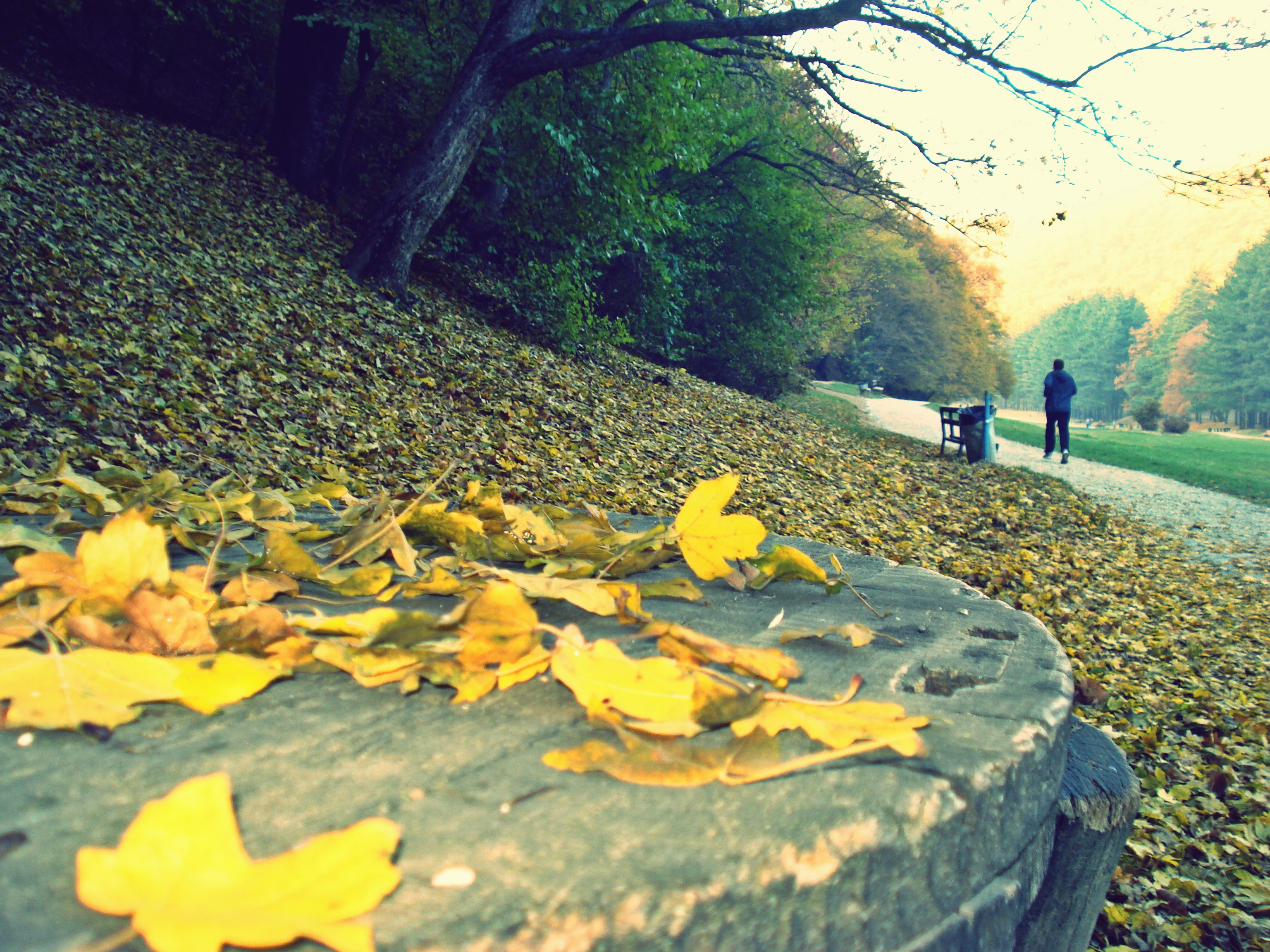 Autumn leaves in Gërmia Park